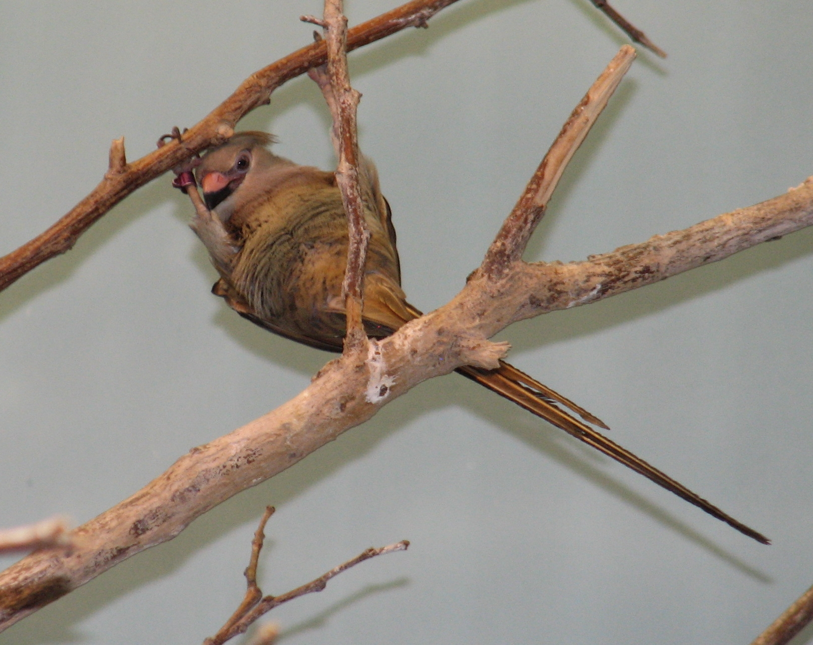 Blue-naped Mousebird - (Colius macrourus or Urocolius macrourus) at cincinnati zoo